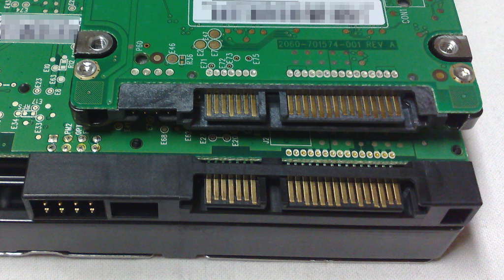 2.5-inch SATA drive on top of a 3.5-inch SATA drive (both drives are made by Western Digital); close-up of data and power connectors